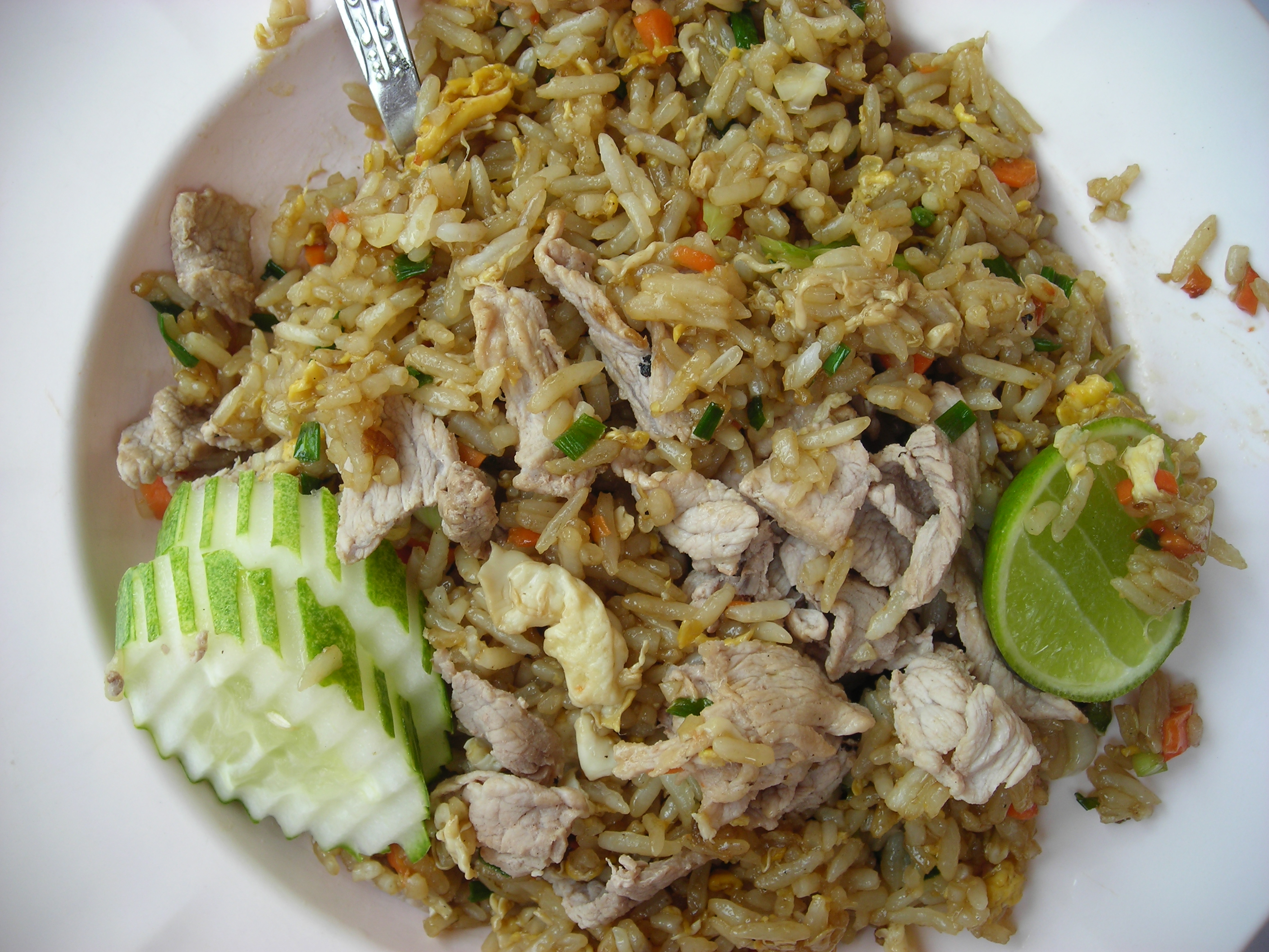 Fried rice with pork - Thailand ("Khao phat mu").